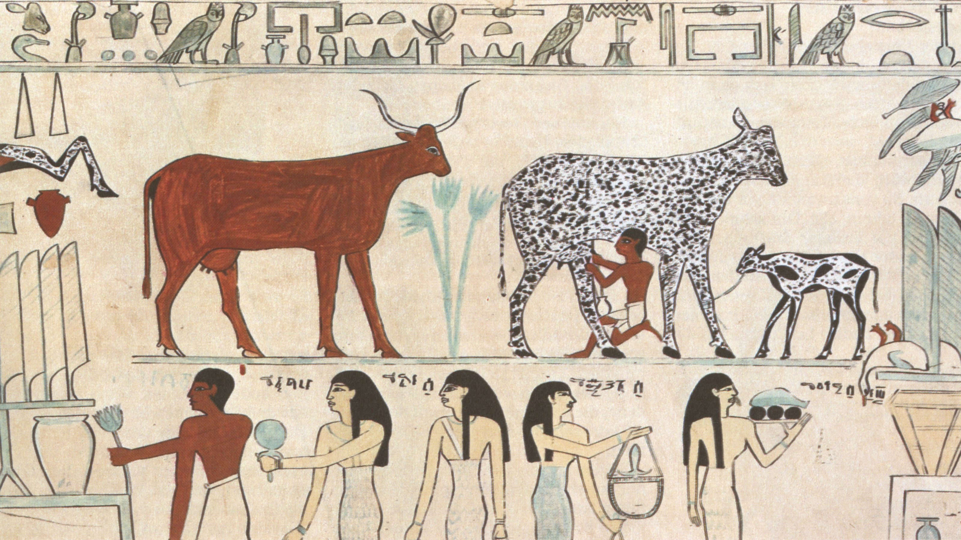 Old Egyptian hieroglyphic painting showing an early instance of a domesticated animal (cow being milked).